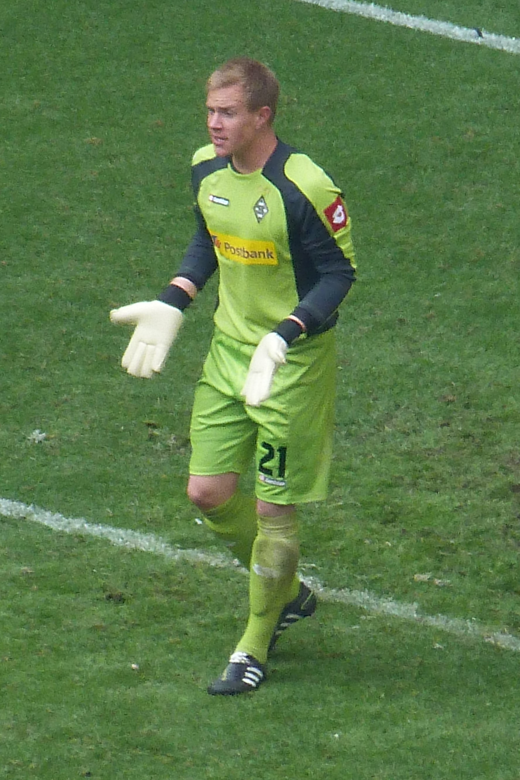 Marc-Andre ter Stegen as Goalkeaper from Borussia Mönchengladbach